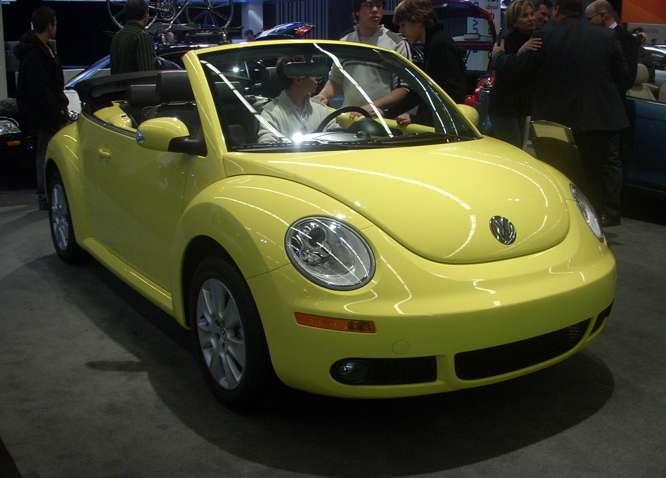 2008 Volkswagen New Beetle photographed at the Montreal Auto Show.